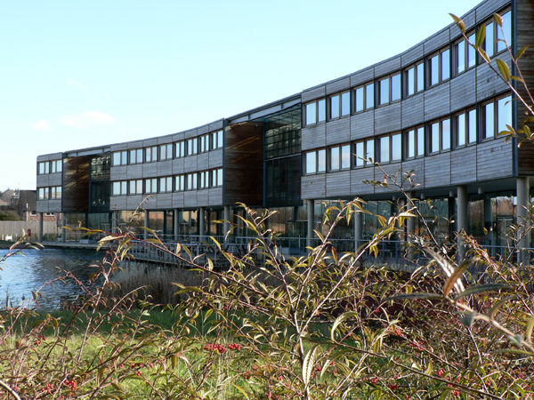 The National College for School Leadership building on Jubilee Park Campus of the University of Nottingham.